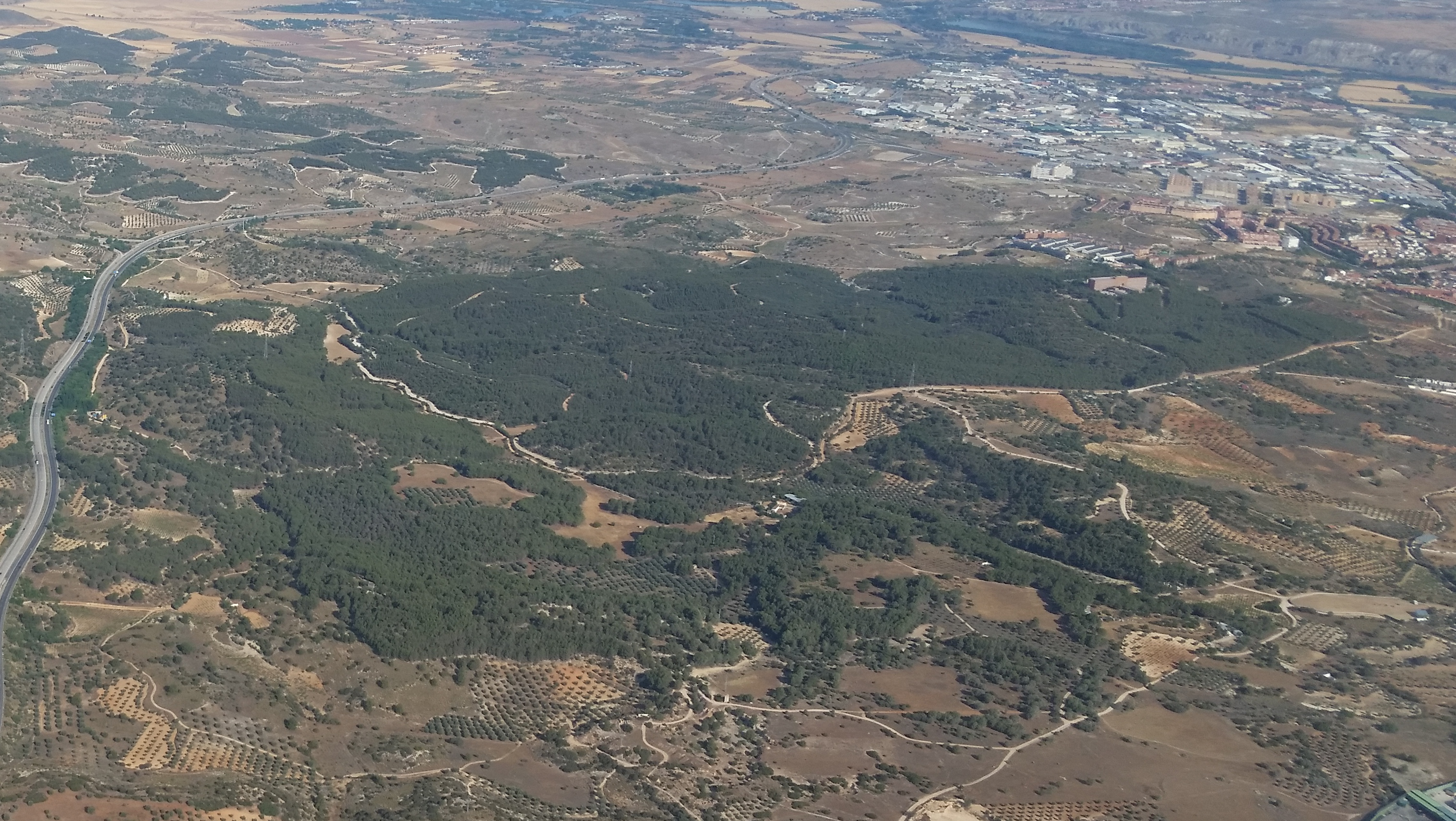 Madrid Final Approach